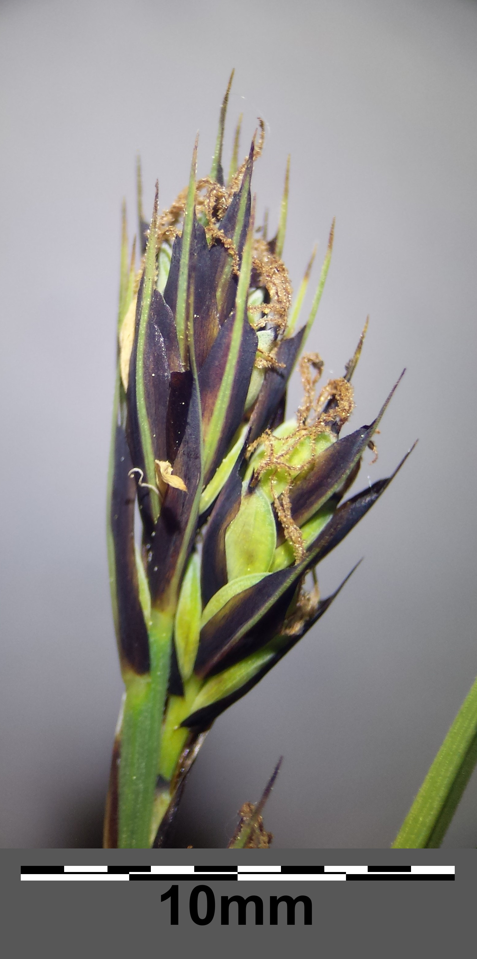 Spike Taxonym: Carex buxbaumii ss Fischer et al. EfÖLS 2008 ISBN 978-3-85474-187-9 Location: Mamauwiese near Puchberg am Schneeberg, district Wiener Neustadt, Lower Austria - ca. 950 m a.s.l. Habitat: meadows